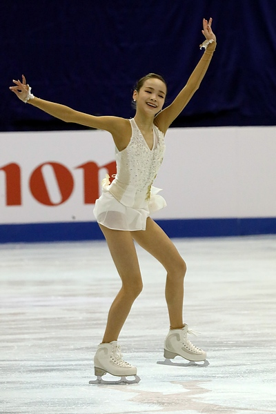 Photos – Junior World Championships 2017 – Ladies